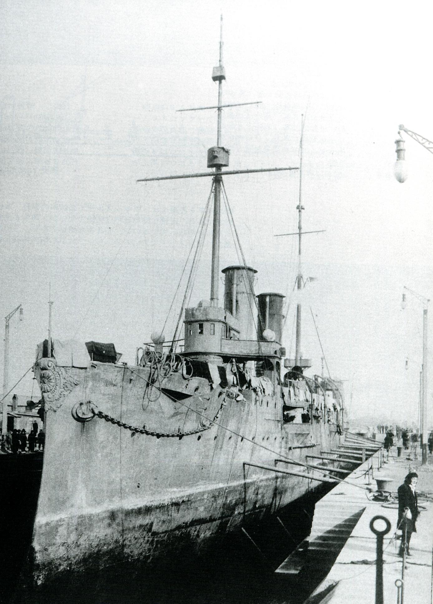 Japanese cruiser Akashi in drydock